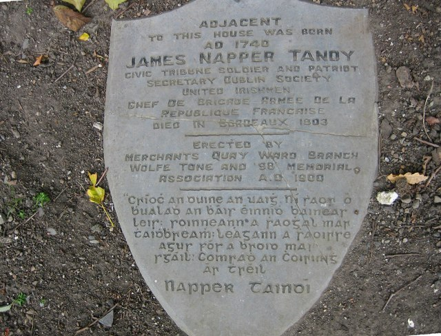 Memorial to Napper Tandy A colourful figure of the United Irish movement.